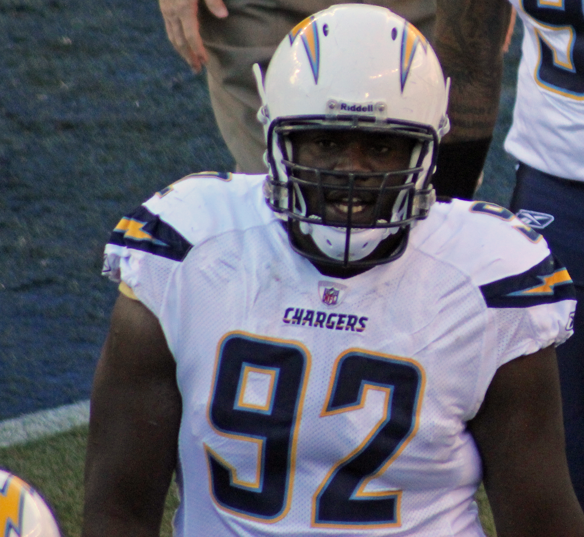 Vaughn Martin, a player on the San Diego Chargers American football team.